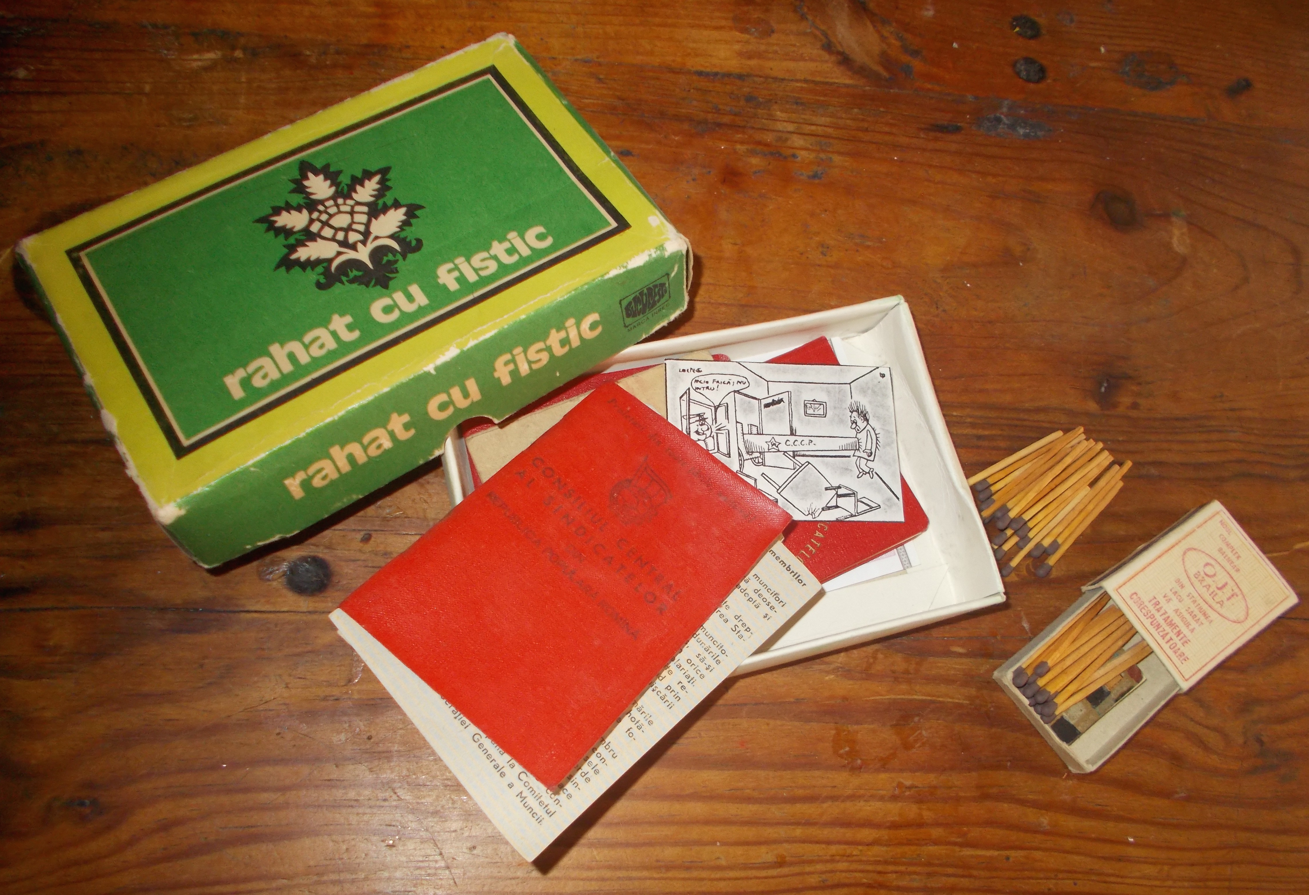 Samizdat in a turkish delight packaging (anonymous caricatures in a trade-union feebook) and a matchbox (little forbidden book under the matches). Romania, 1980-ies.